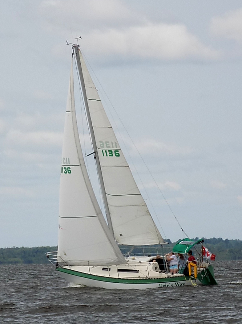 A CS 27 sailboat named Erin's Way.